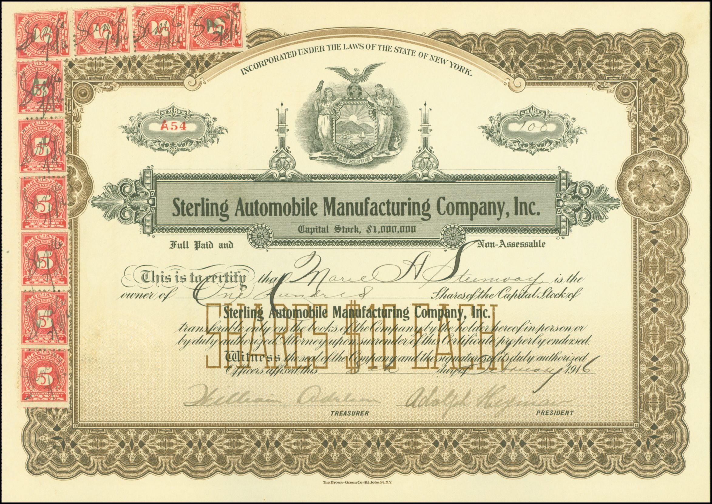 Share of the Sterling Automobile Manufacturing Company, issued 8. February 1916